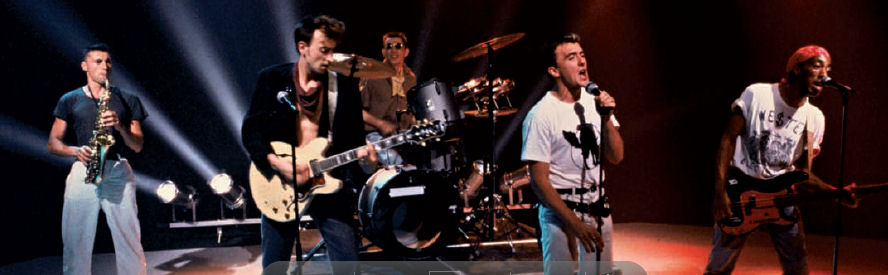 groupe ND